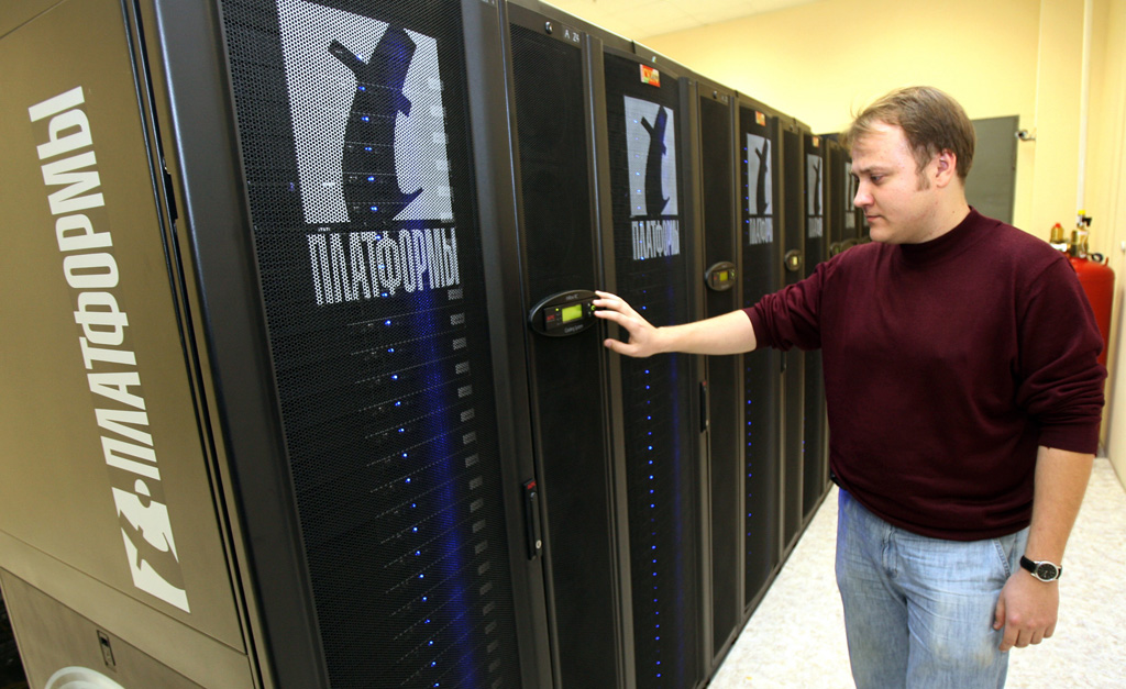 “SKIF CYBERIA supercomputer at the Tomsk State University”. An engineer shows the supercomputer SKIF CYBERIA at the Tomsk State University. The computer is the most powerful in Russia, the Commonwealth of Independent States and Eastern Europe.